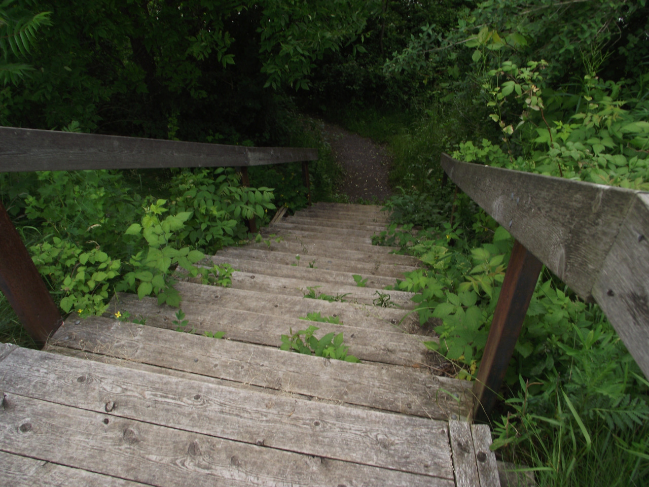 These are the wooden steps leading from the Battle of the Windmill historic site in New Wexford, Ontario, down to the St. Lawrence River. The historic site is located a couple meters from the shore on top of a slight cliff; there is a historical marker containing information about the site and the old windmill itself to view. Facing the river and the windmill, the stairs are slightly to the left hand side of the structure. The stairs lead to a rocky beach, providing an alternate view of the St. Lawrence from the top. This picture was taken with a digital camera on a slightly overcast day in June of 2013. 44°43'16.0"N 75°29'13.1"W 44.721113, -75.486973